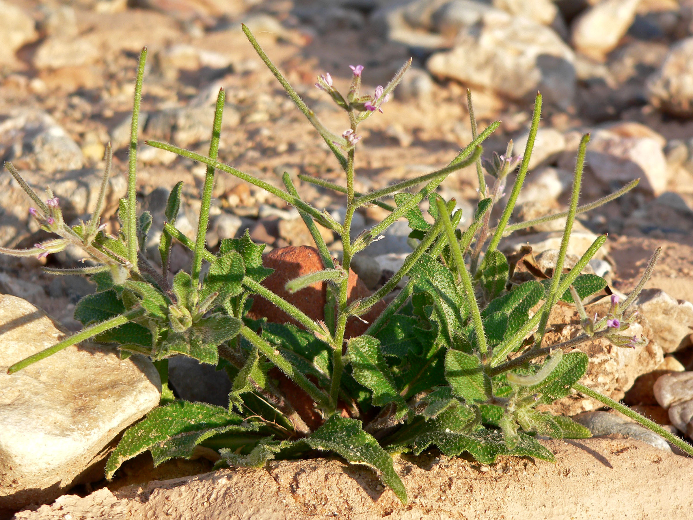 Malcolmia africana in Gypsum Wash where Northshore Drive crosses it, Lake Mead National Recreation Area, southern Nevada